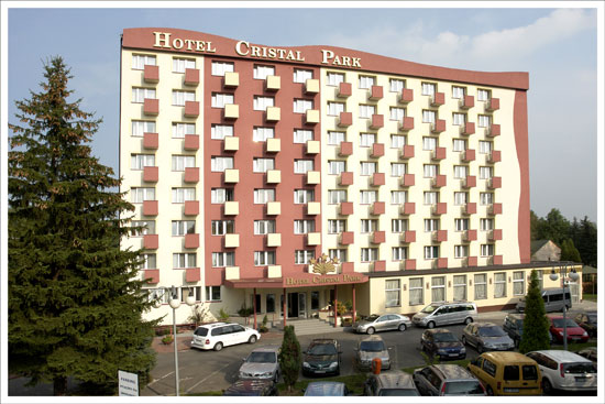 Hotel Cristal Park